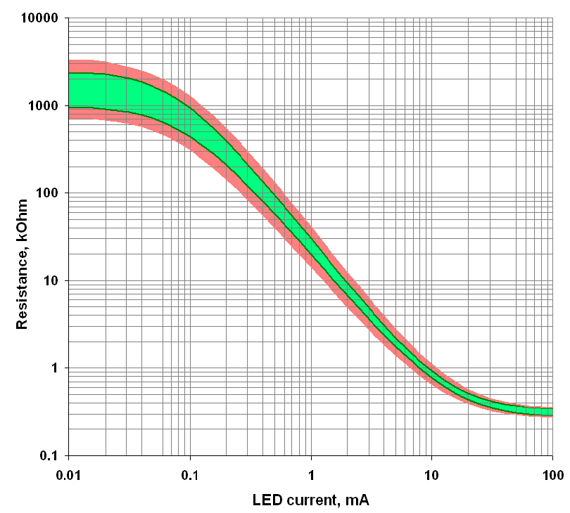 Idealized transfer function of a LED-LDR optoisolator ("vactrol"). Green band approximated fluctuations due to memory effect at room temperature. Wider red band approximates effects of thermal drift, changes in optical coupling due to thermal shifts in LED emission band, etc. As a general rule, all irregularities decrease with the increase in illuminance. Adapted from drawings in PerkinElmer (2001). Photoconductive Cells and Analog Optoisolators (Vactrols®), pp. 34 (response curve) 10, 12 (thermal drift), and idealized model in Silonex (2007). Audiohm Optocouplers: Audio Characteritics.